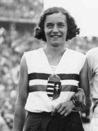 Ibolya Csák at the 1936 Summer Olympics